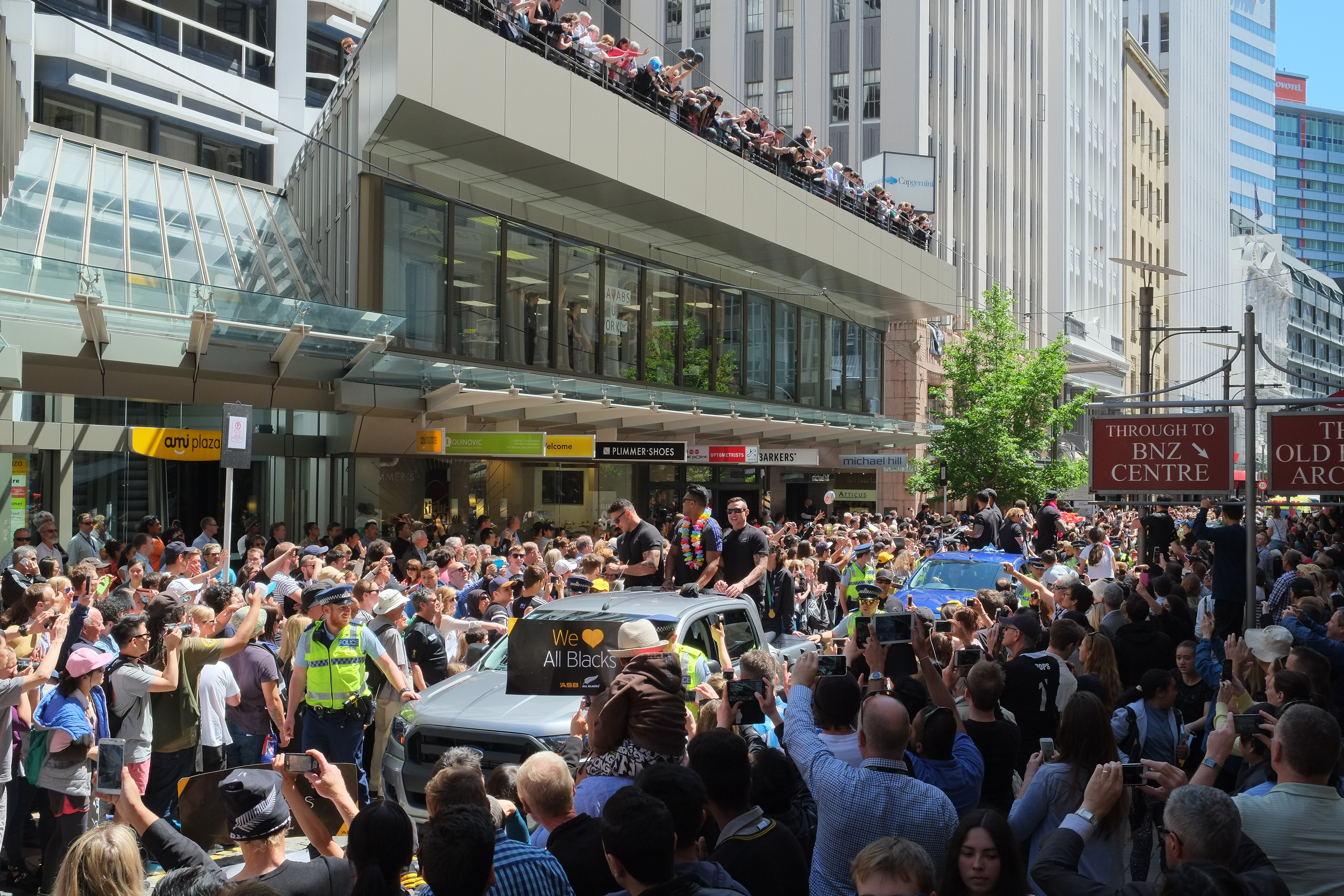 Crowds along Lambton Quay watching the 2015 RWC All Blacks victory parade (Codie Taylor, Julian Savea, TJ Perenara). The Wellington parade drew an estimated 100,000 fans.[1]